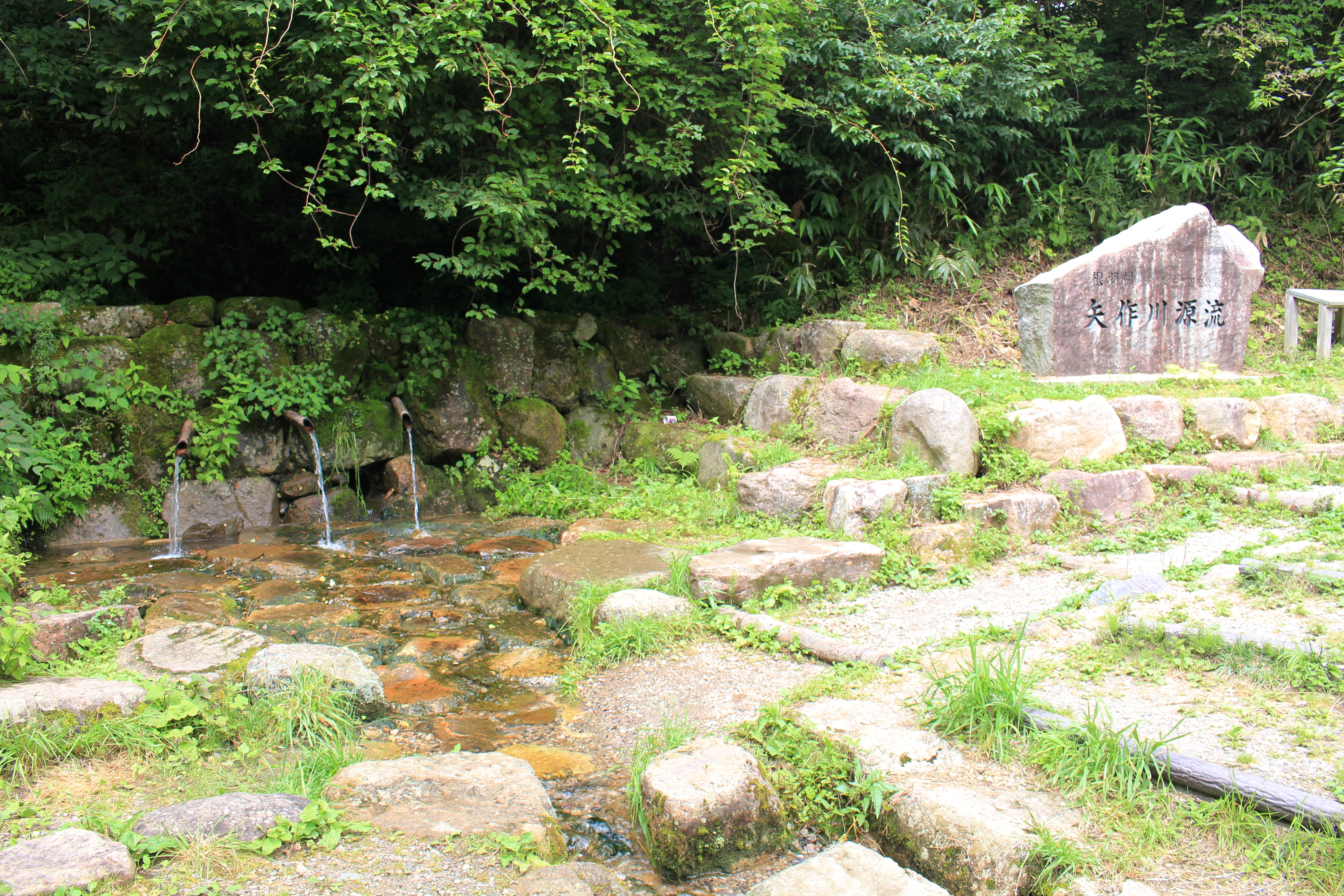 Headwater of Yahagi river (Neba river) in Neba, Nagano prefecture, Japan.